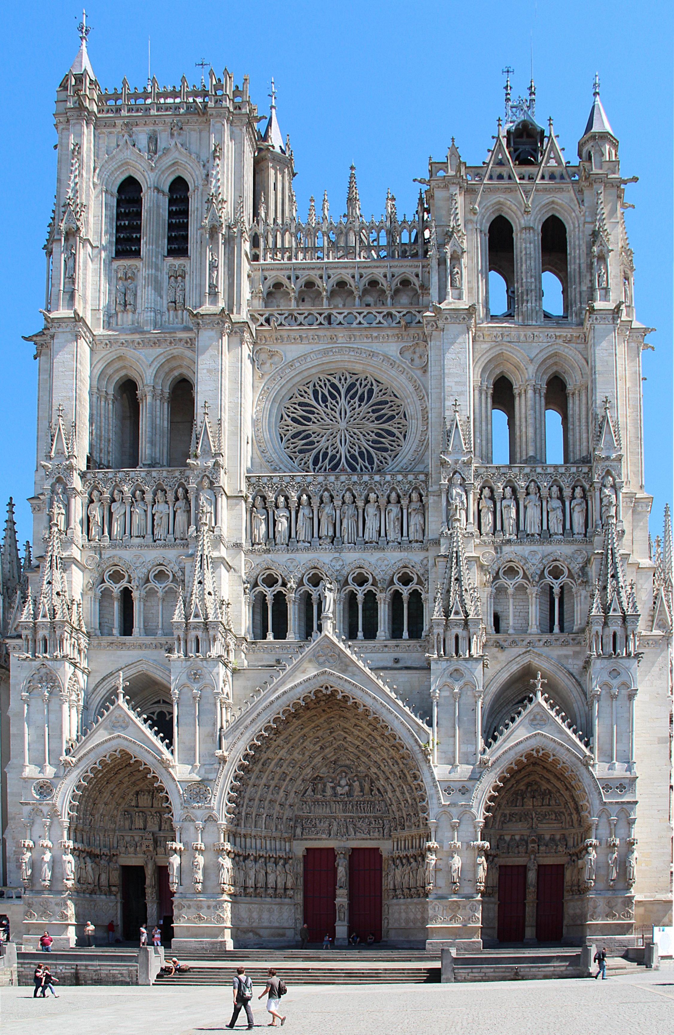 Amiens (Somme - France), facade of the Cathedral of Our Lady of Amiens (1220-1269).